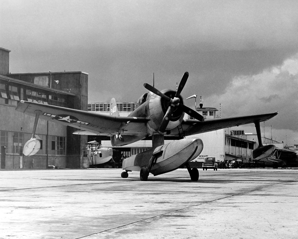 A U.S. Navy Curtiss SC-1 Seahawk sea plane on the sea wall at Naval Air Station Jacksonville, Florida (USA), in 1946.